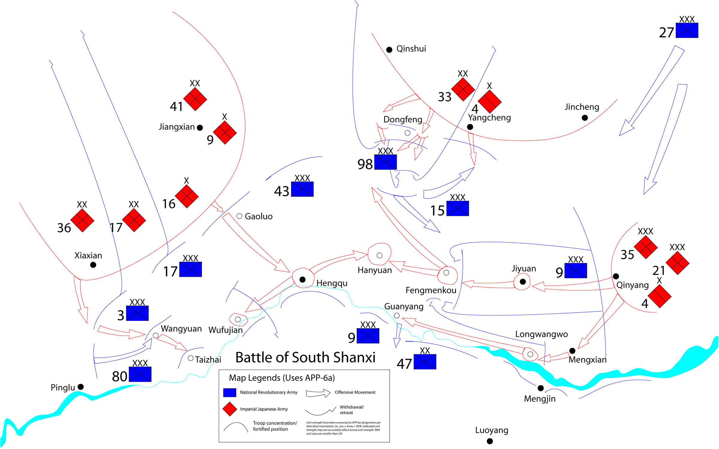 Battle of South Shanxi, own map based on another one. Not really done yet. For explanation of map symbols, see APP-6a.